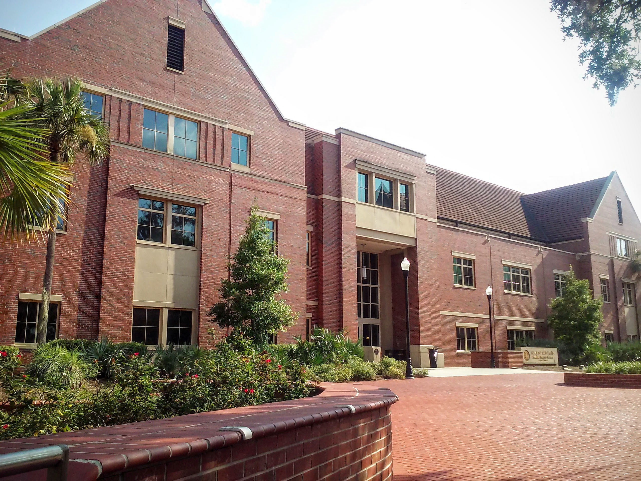 The Dunlap Student Success Center at Florida State University